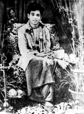 Young Sathya Sai Baba soon after he proclaimed himself as the avatar of Shirdi Sai Baba.